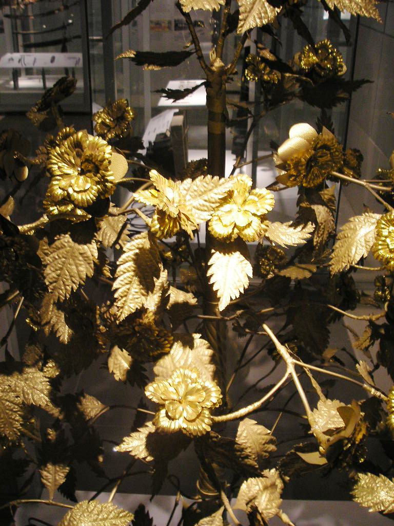 The Bunga Mas (translates as Golden Flowers) was a tribute sent every three years to the Siamese government in Bangkok, as a symbol of friendship by the Malay rulers of the northern states of the Peninsula (Kedah, Kelantan, Terengganu and Patani). The sending of the Bunga Mas began in the 14th century as a colourful ceremonial presentation including four spears with gilded shafts, a kris encrusted with gems, a spitton, a box, an arrangement of betel leaves and two rings. In return, the King of Siam made gifts of equal value. The sending of the Bunga Mas stopped at the end of the 19th century.